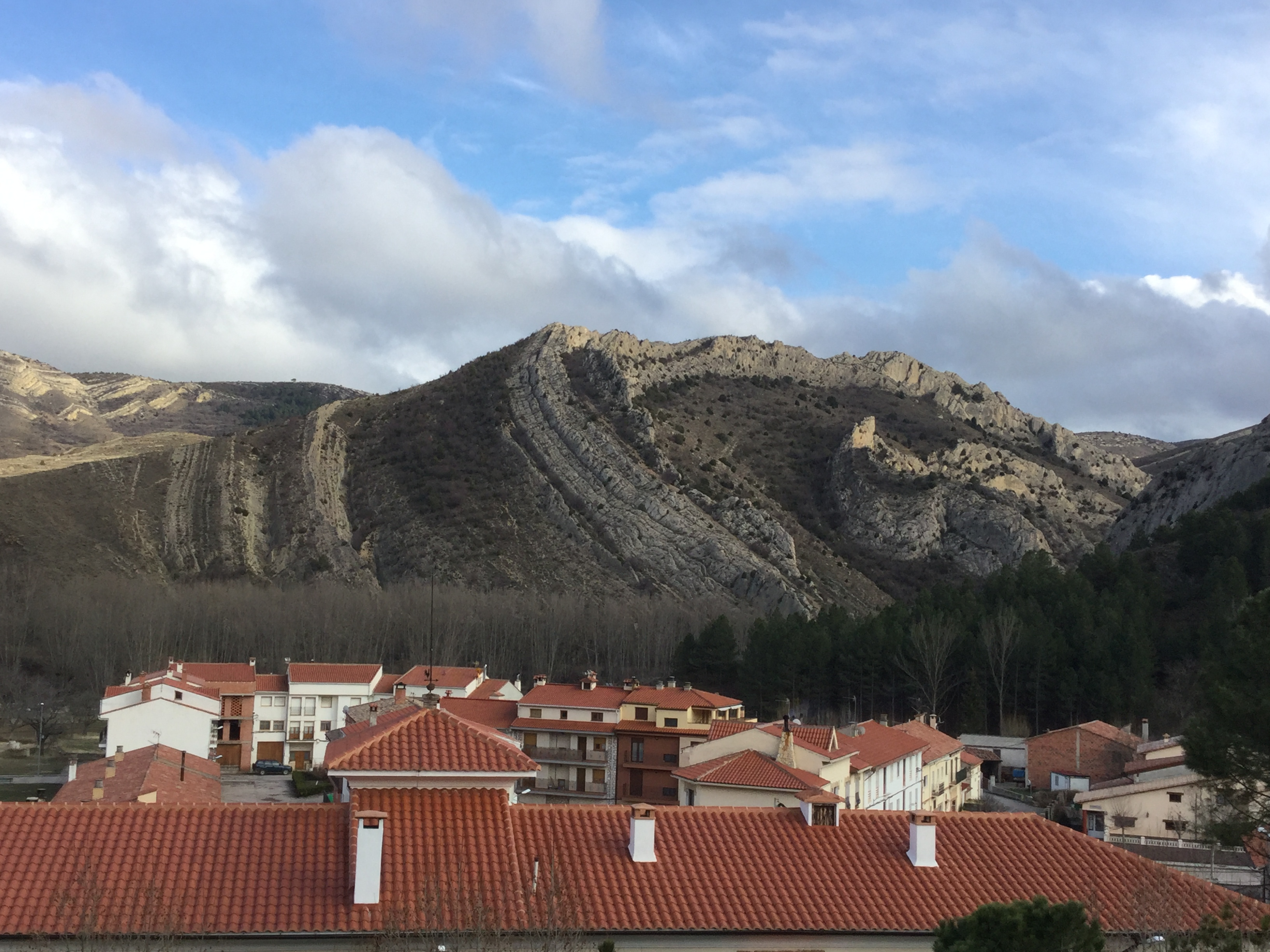 The geological park of Aliaga (Teruel, Spain) is one of the most interesting geological zones of Aragon, a viewpoint of the last 200 million years of Earth's history.